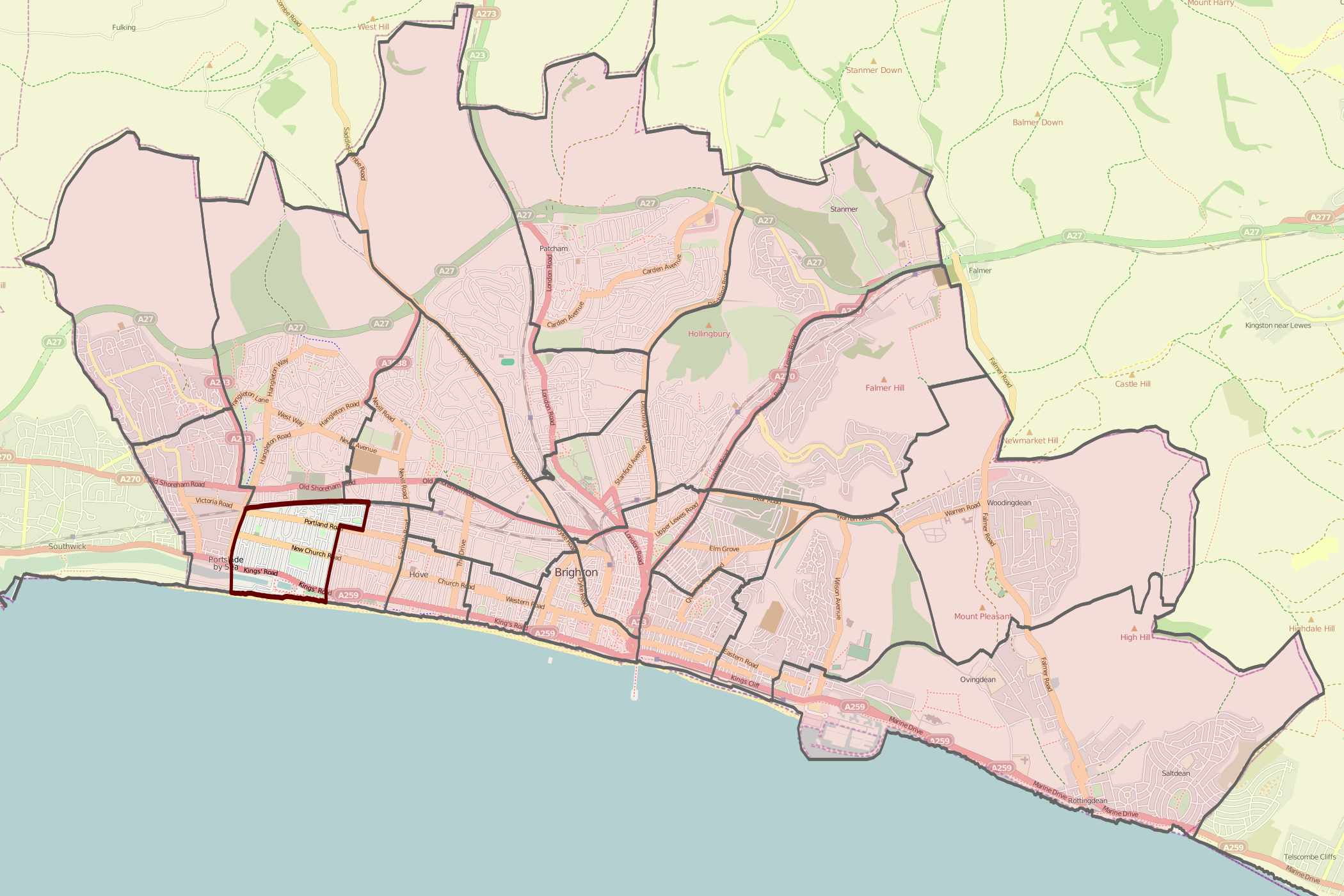 Map of Brighton and Hove wards with one ward highlighted